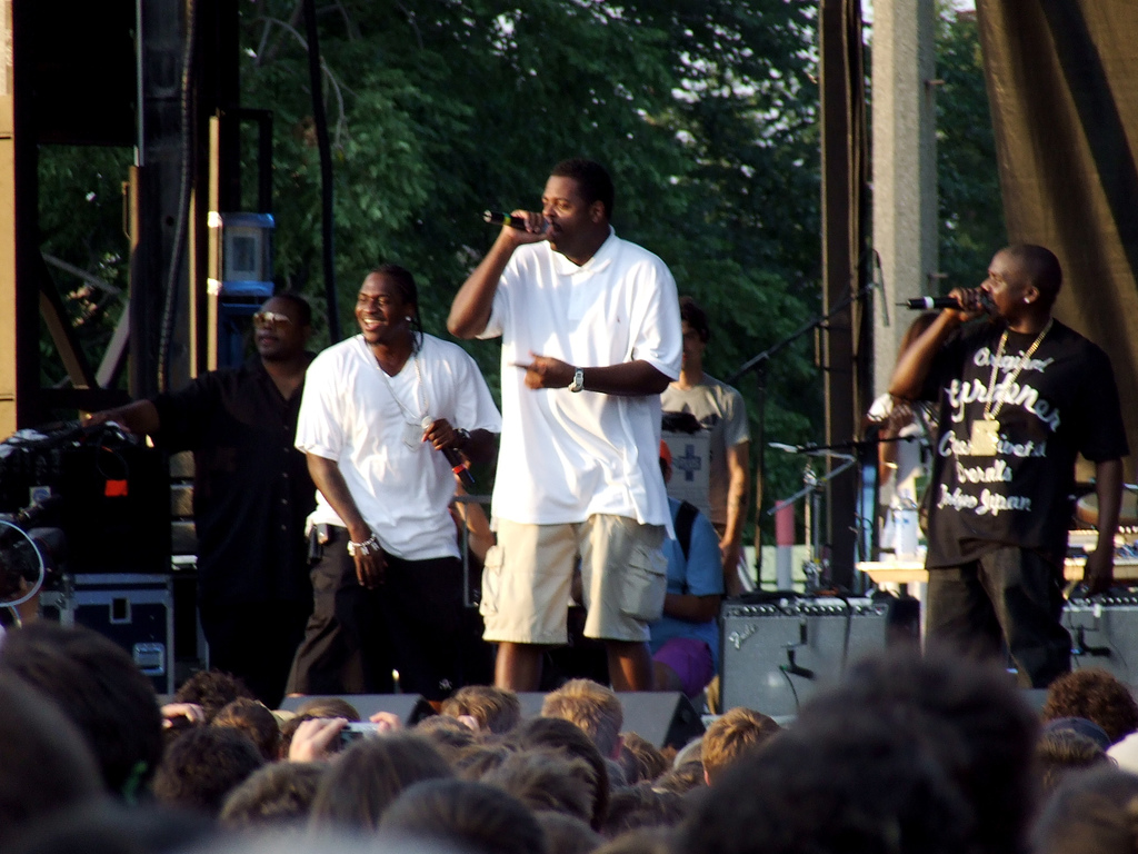 Clipse/Re-Up Gang performing in Chicago, Illinois